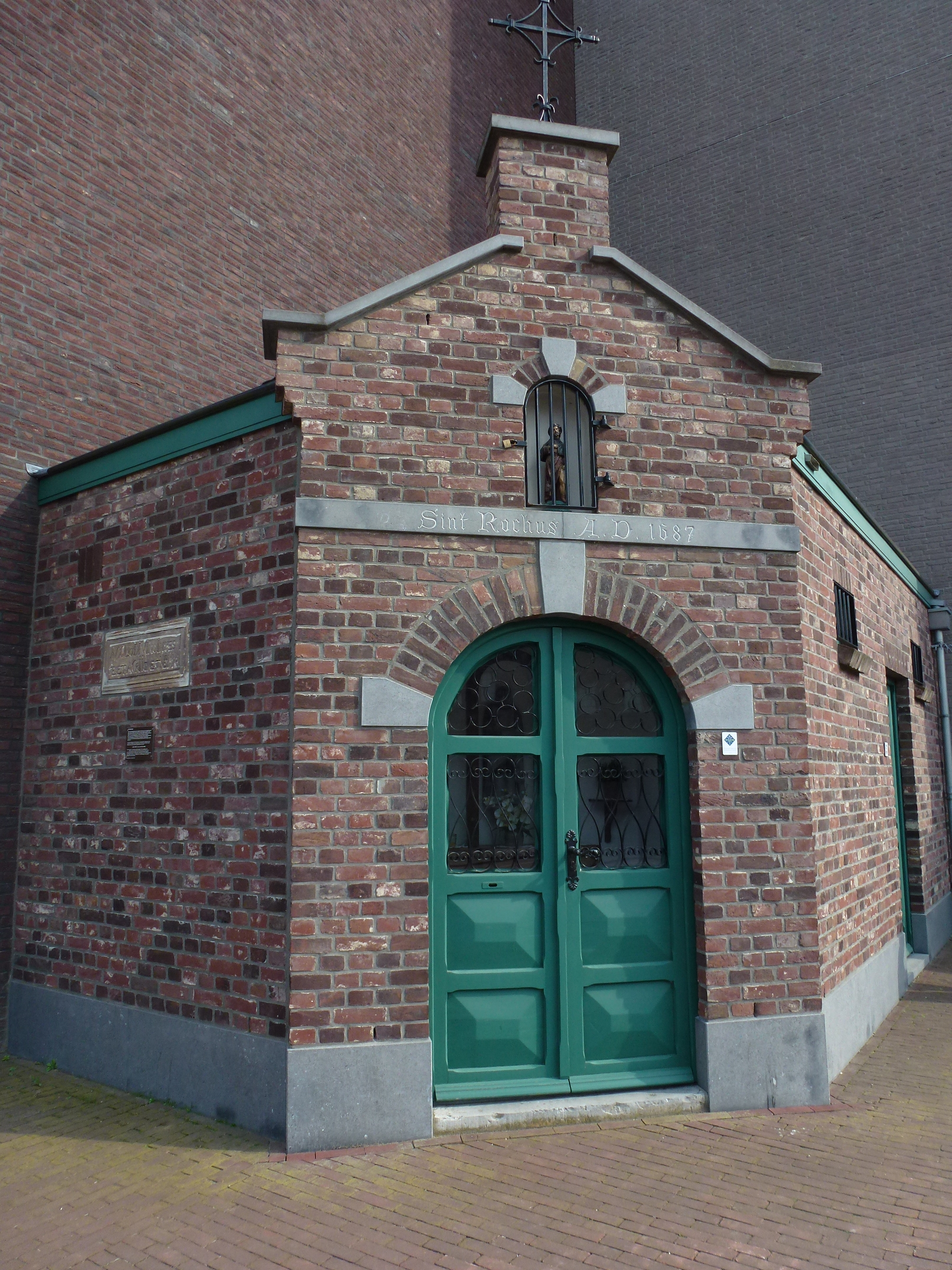 Echt (Echt-Susteren) St.Rochuskapel Molenbeke